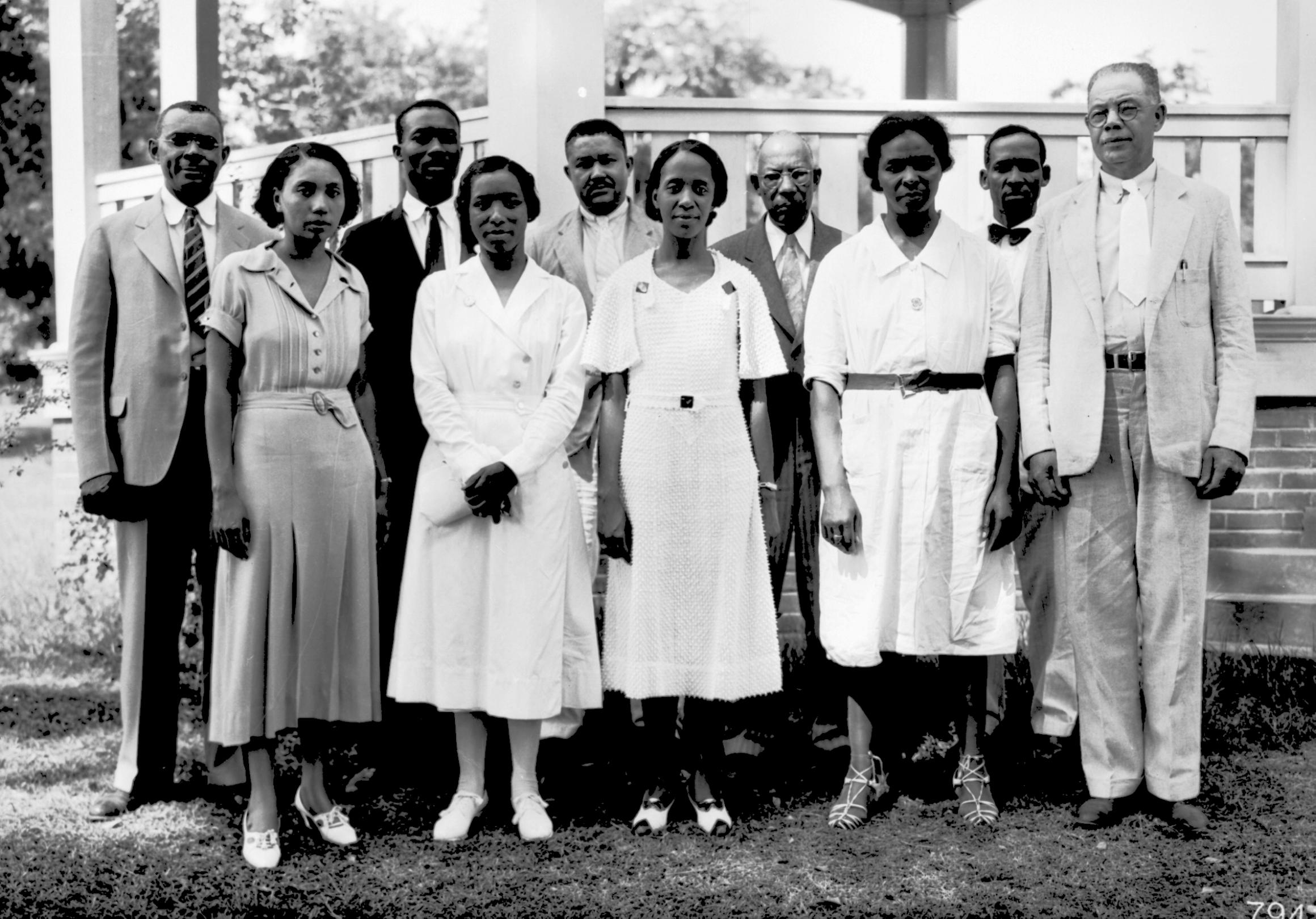 University of Florida Archives photo. 4-H African American Home Demonstration Agents. 1933